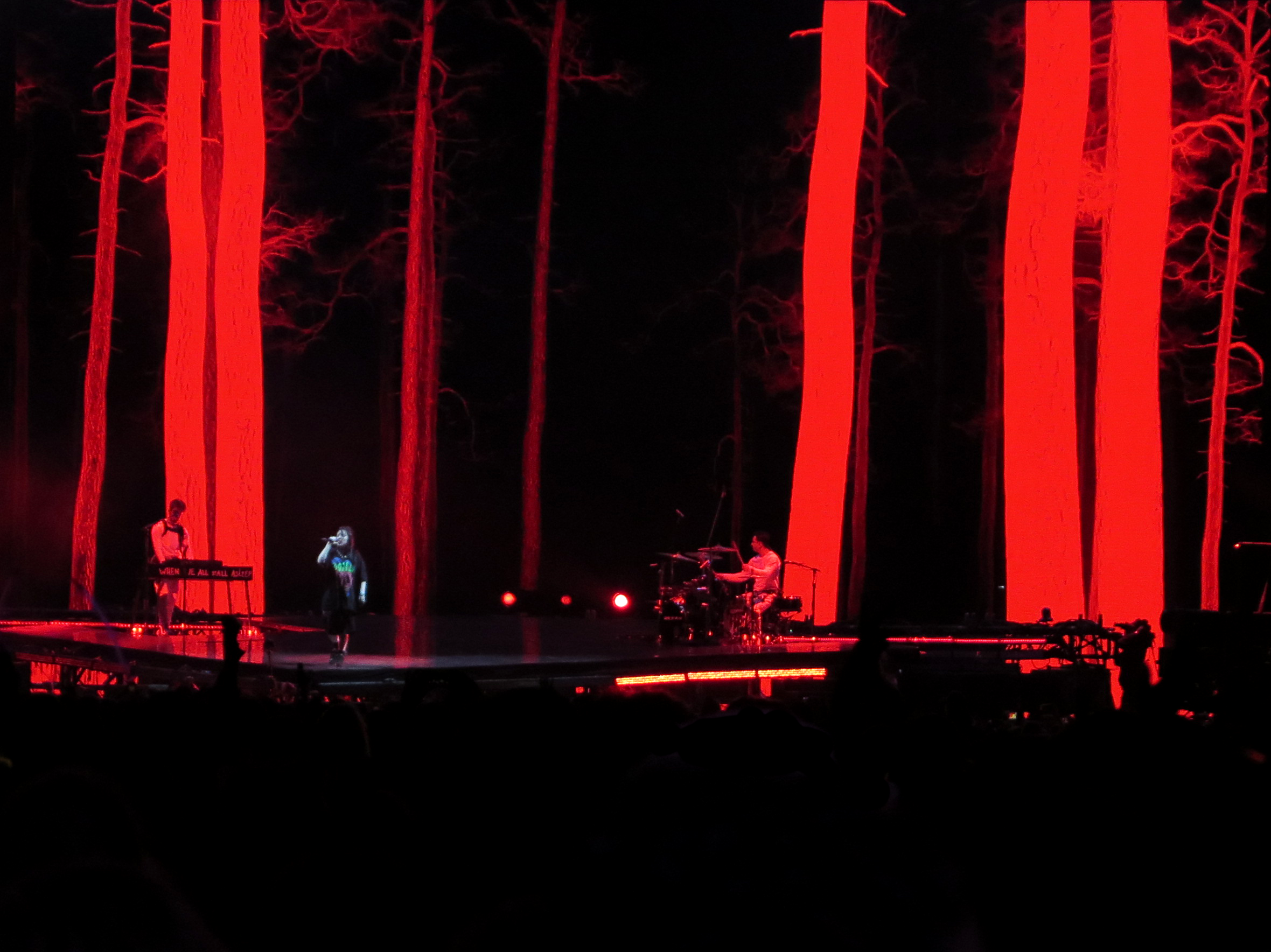 Weekend 2 on the Outdoor Stage